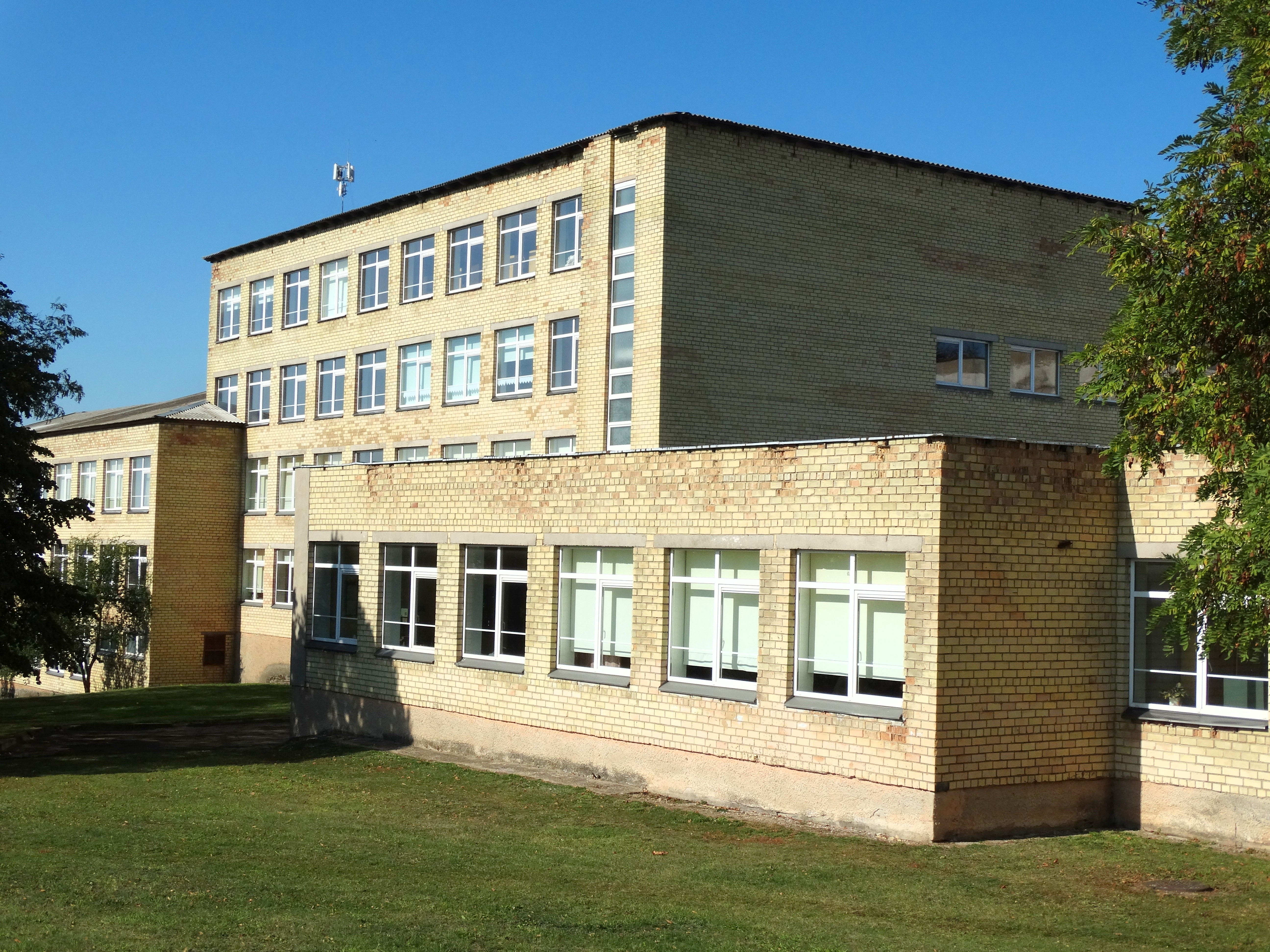 Vocational School of Technology and Business, Raseiniai, Lithuania